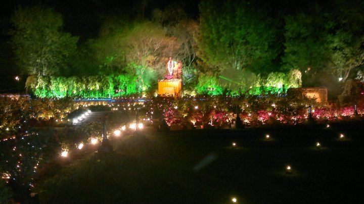 Statue of jamsetji tata at Jubilee park